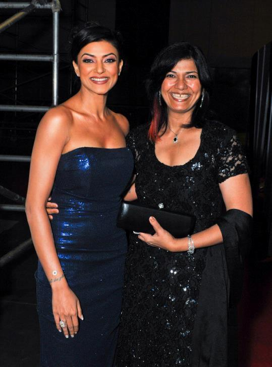 The File is a jpg file, it has an image of Renu Sukheja with former Miss Universe Sushmita Sen at the I Am She 2012 Final at Leonia Holistic Destination, Hyderabad.